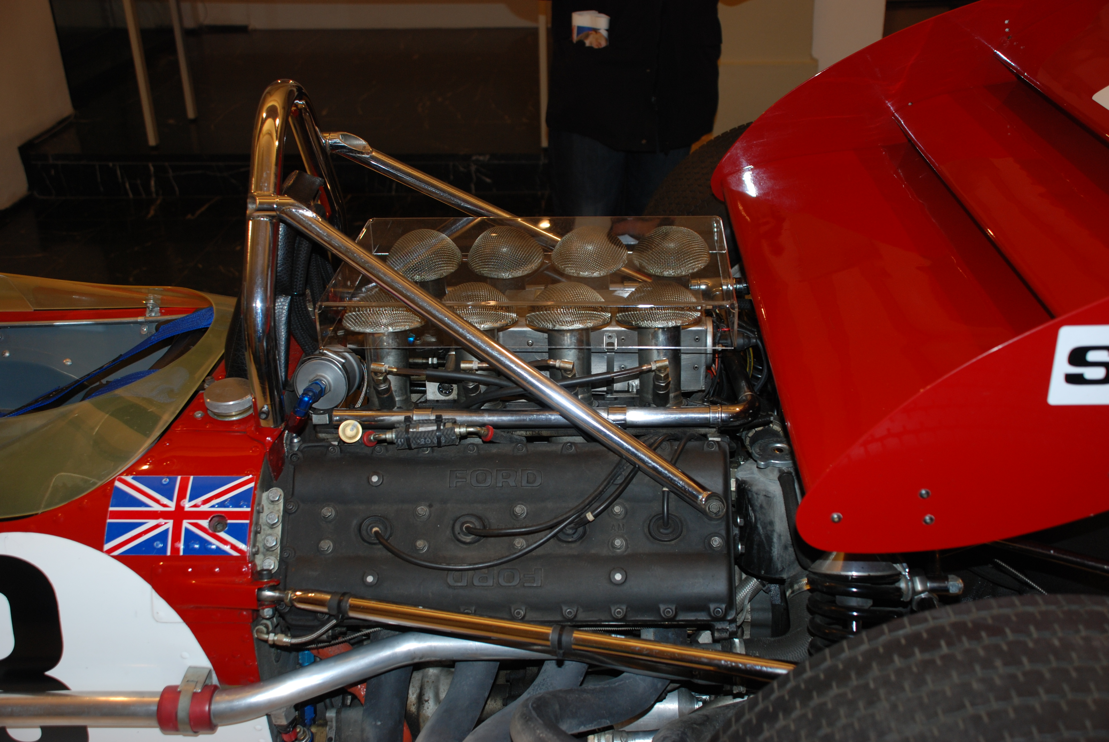 Ford-Cosworth-V8-Engine